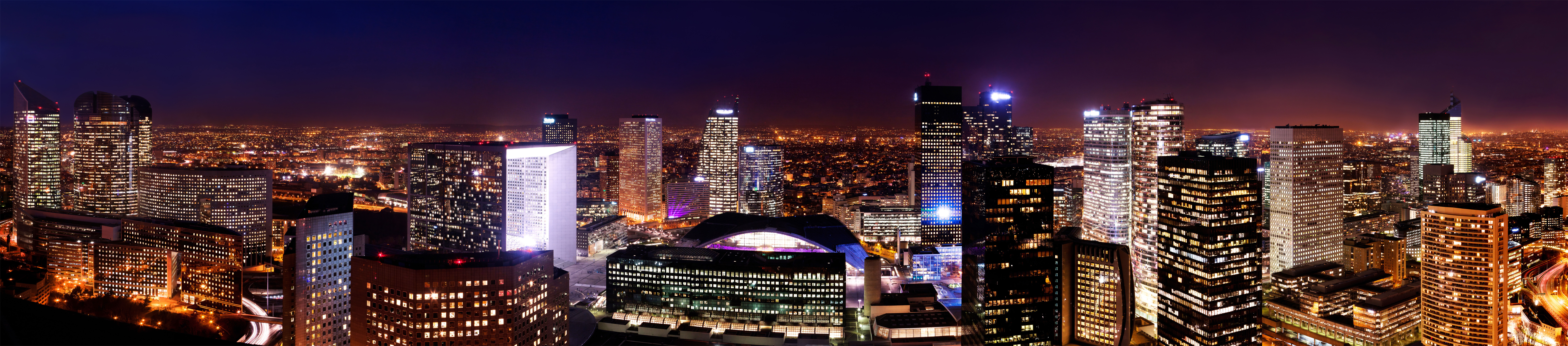 Paris business district of La Défense (cities of Puteaux, Courbevoie and Nanterre) as seen from the tour Défense 2000.